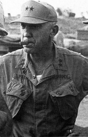 Gen. William R. Peers, from Taking the Offensive